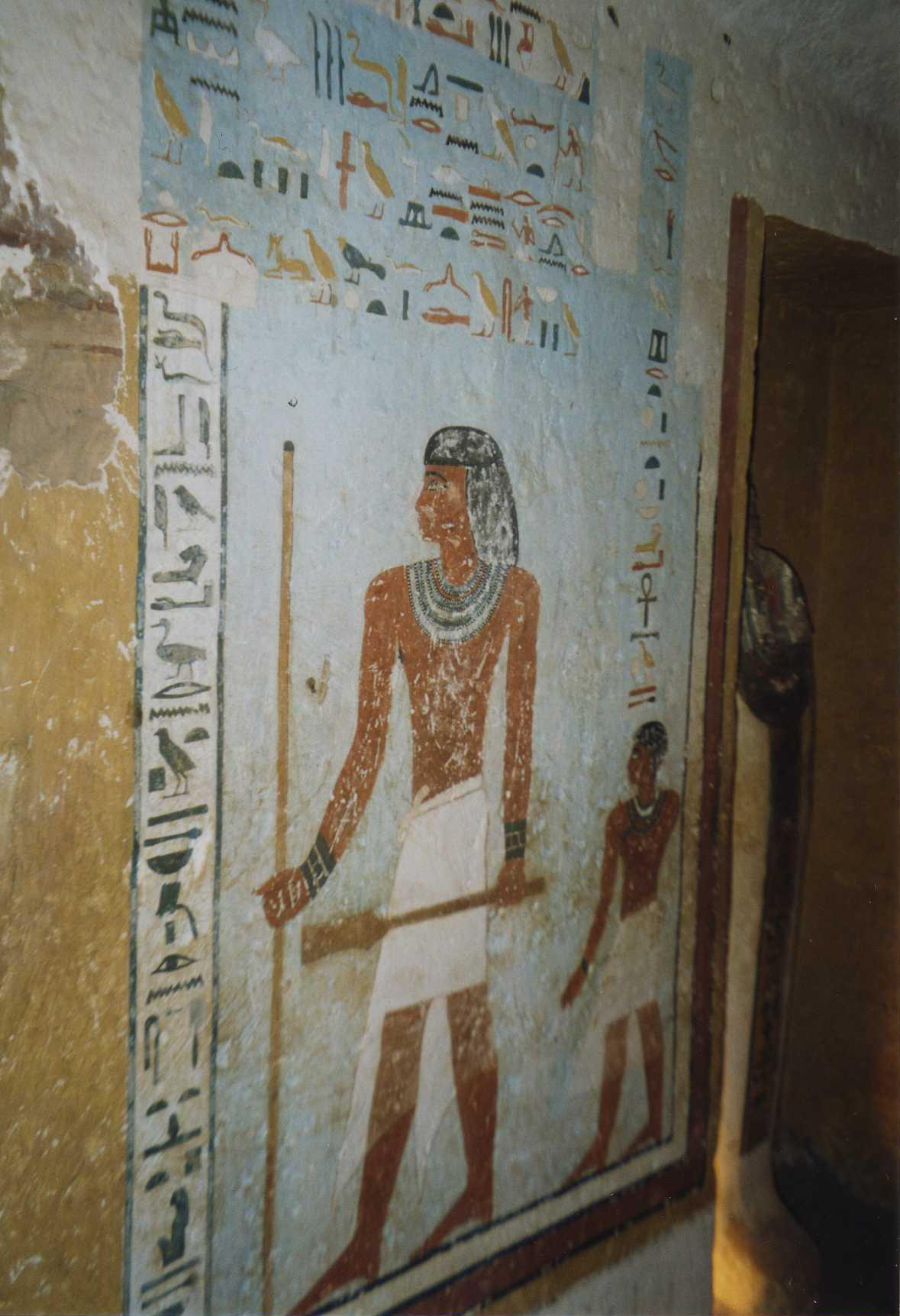 Representation of Sarenput II. on a wall in the vaulted corridor of his tomb